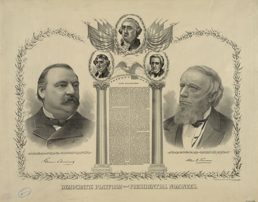 1888 Democratic platform and presidential nominees